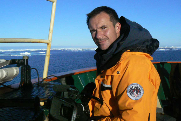 CBC Videojournalist Sasa Petricic on assignment in Antarctica, the first CBC correspondent to report from this continent